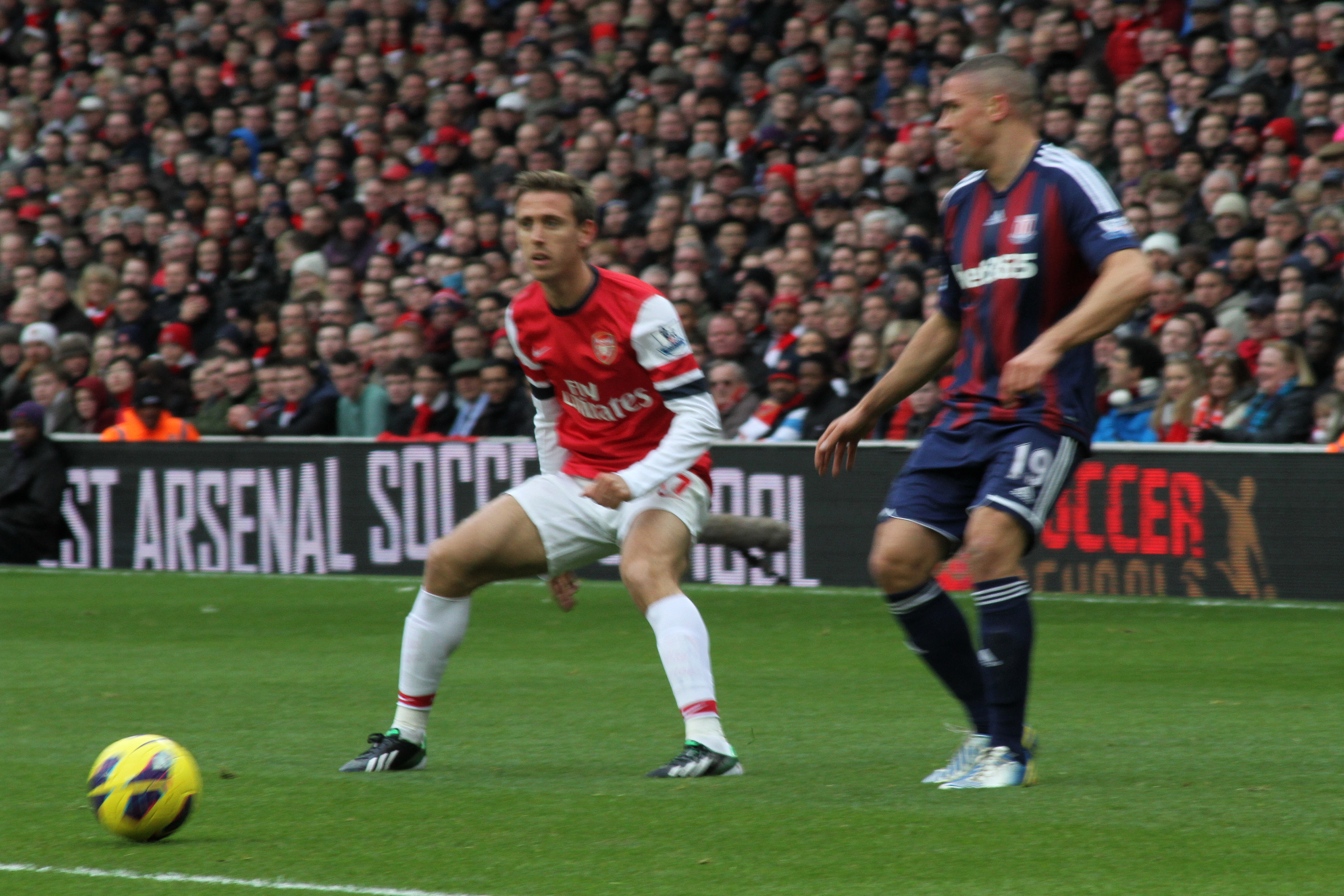 Nacho Monreal & Jonathan Walters